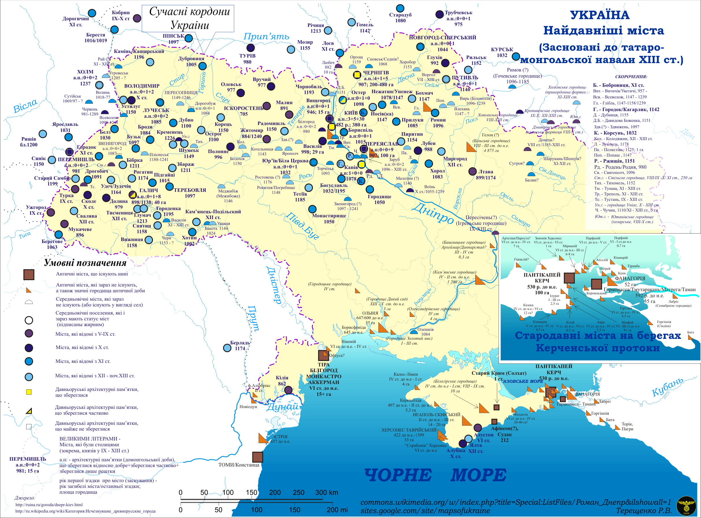 Ancient City Ukraine (pre-Mongol era)